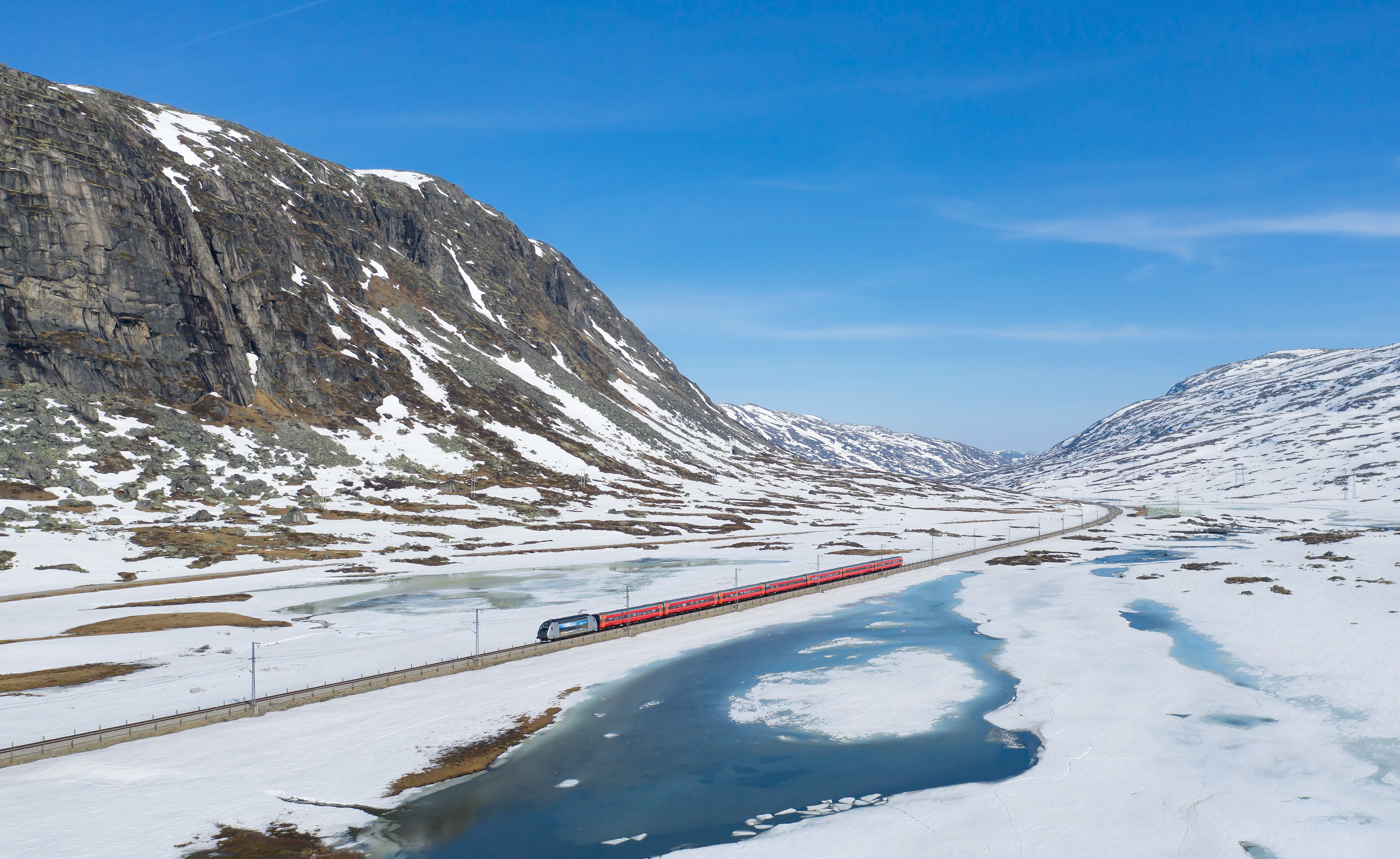 VY's El 18 2243 hauls Regiontog 601 (Oslo - Bergen) over the Hardangervidda between Haugastøl and Finse, Norway.